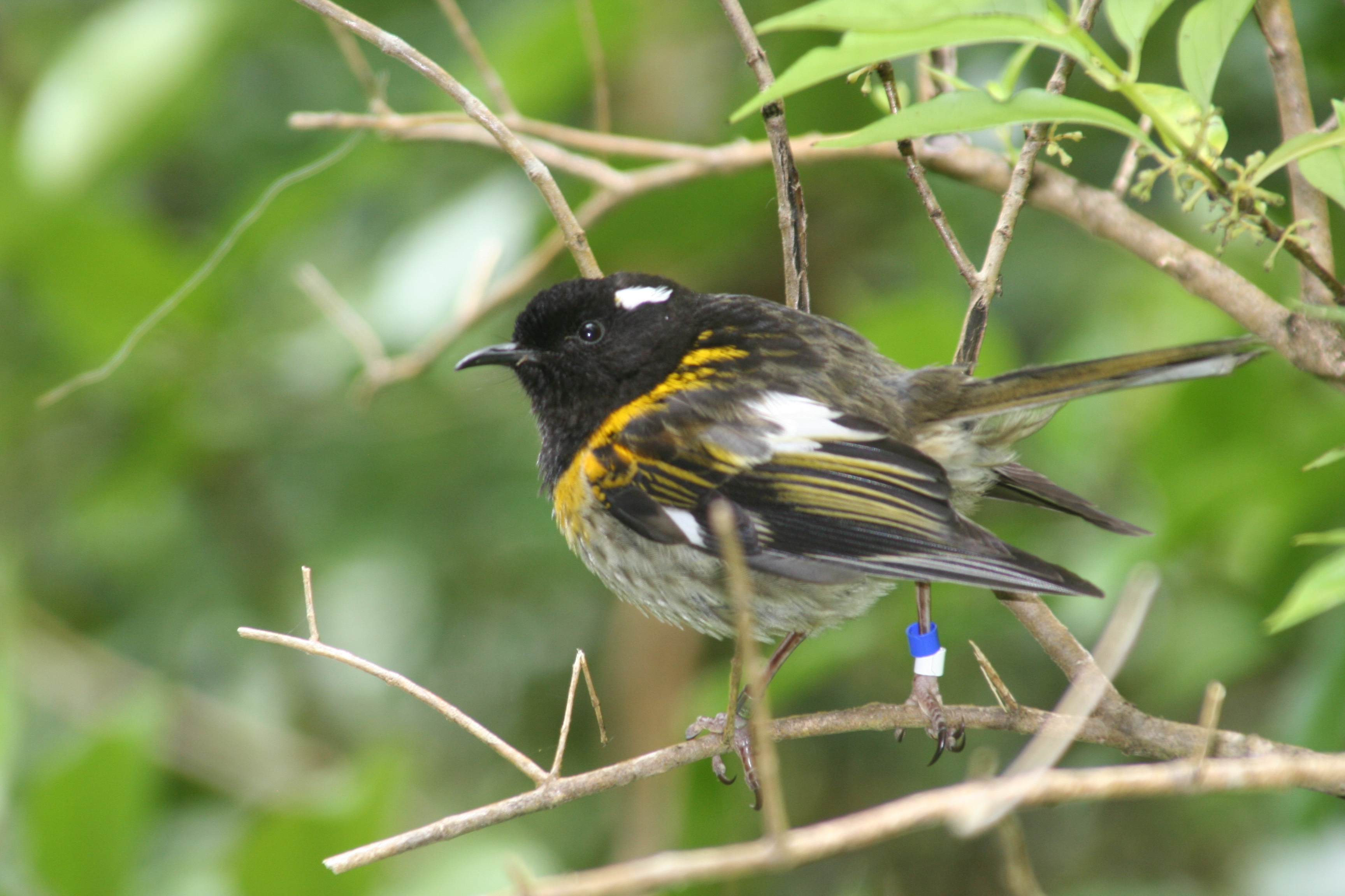 Male Stitchbird, or Hihi (Notiomystis cincta) Tiritiri Matangi island